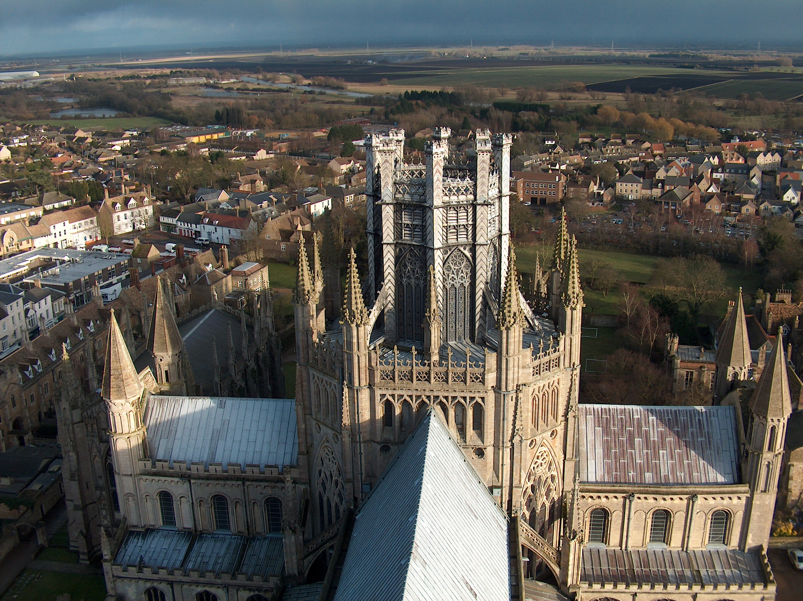 View over Ely Cathedral from the top of the West Tower